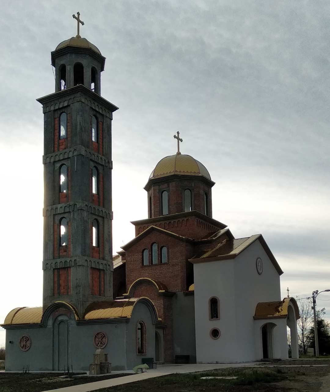 Temple of the Saint Matthew Novi Surčin